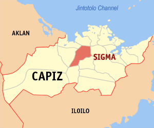 Map of Capiz showing the location of Sigma